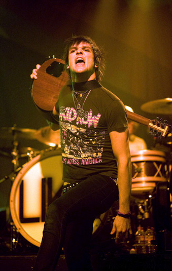 Boys Like Girls performing